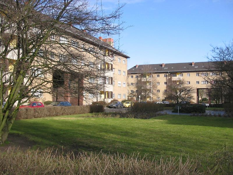 Listed Bärensiedlung (german for „Bear residential development“) at the Oberlandstraße (street) in Berlin-Tempelhof, built in 1929/31.